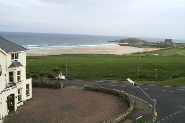 North-Northwest from the Fistral Bay Hotel. From room 205